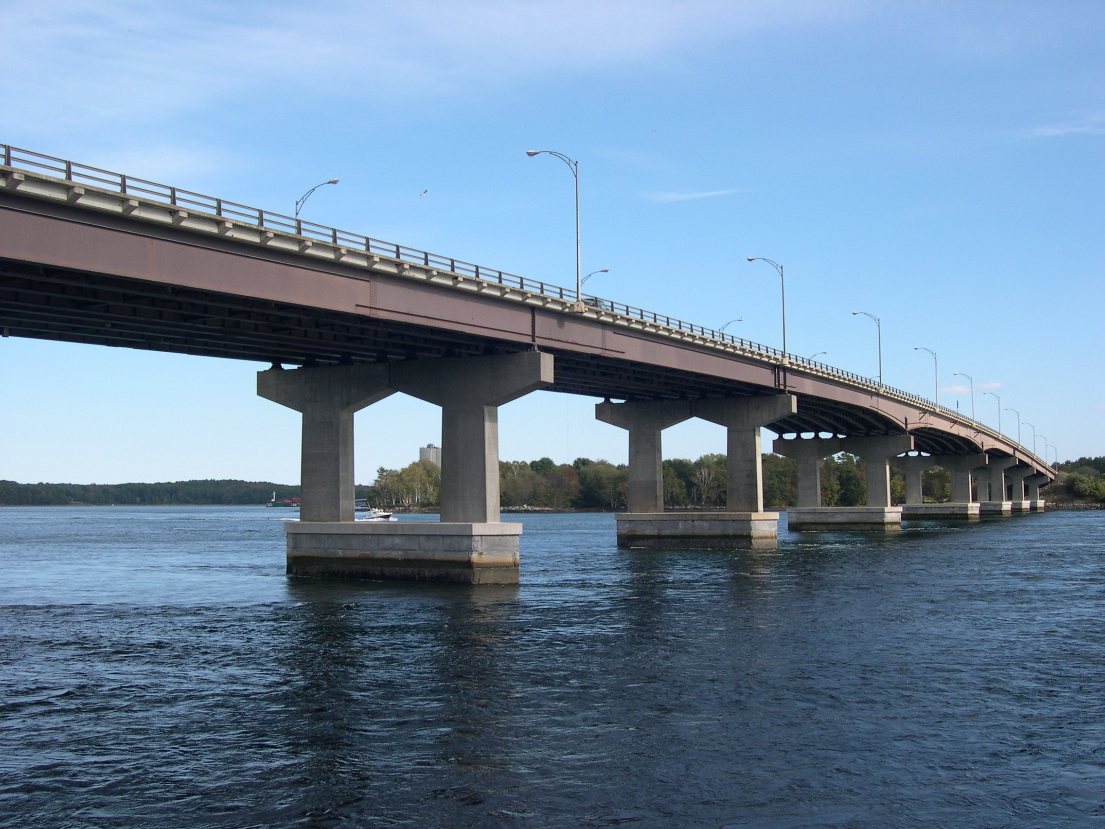 The Little Bay Bridges span the mouth of Little Bay, seen from Dover Point.